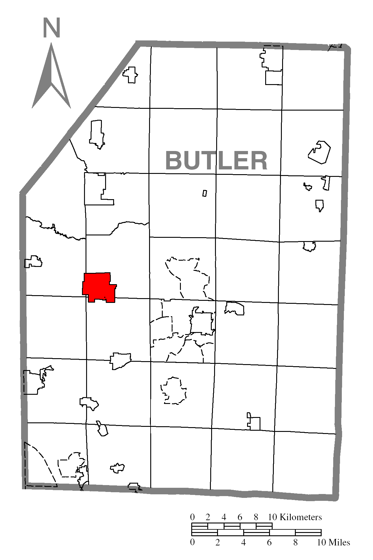 A map of Butler County showing Prospect, Pennsylvania (alternate) highlighted on the map.